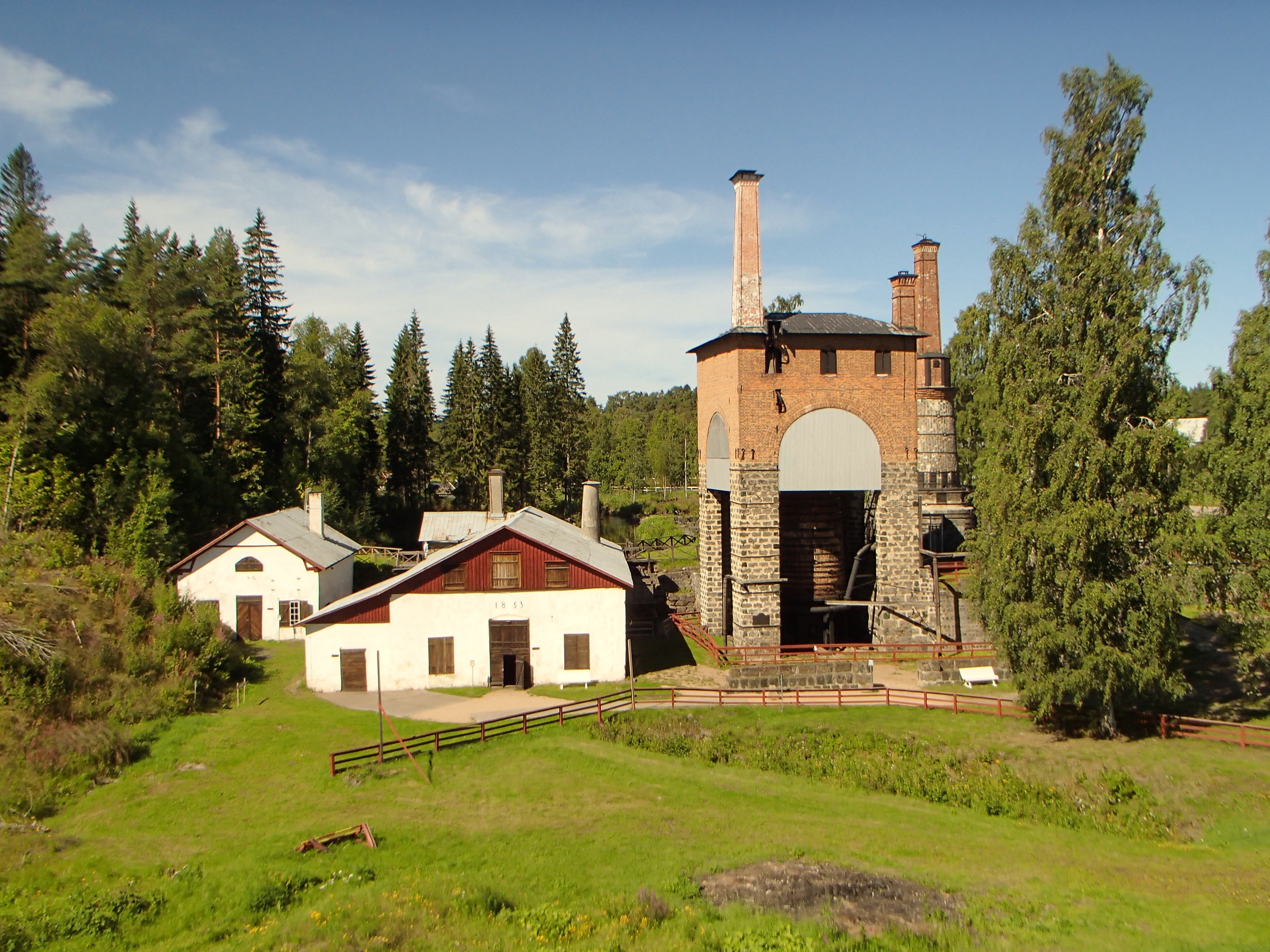 Industrial community buildings of the "Galtströms bruk" ironworks at Galtström, Sundsvall Municipality